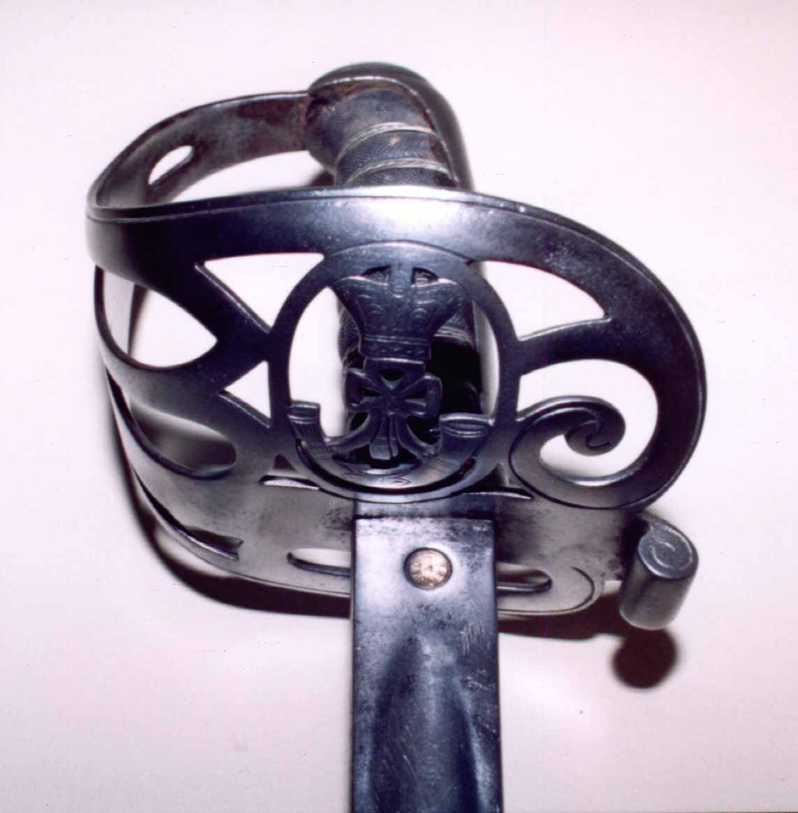 Sword - English Circa 1870 - Albany Western Australia